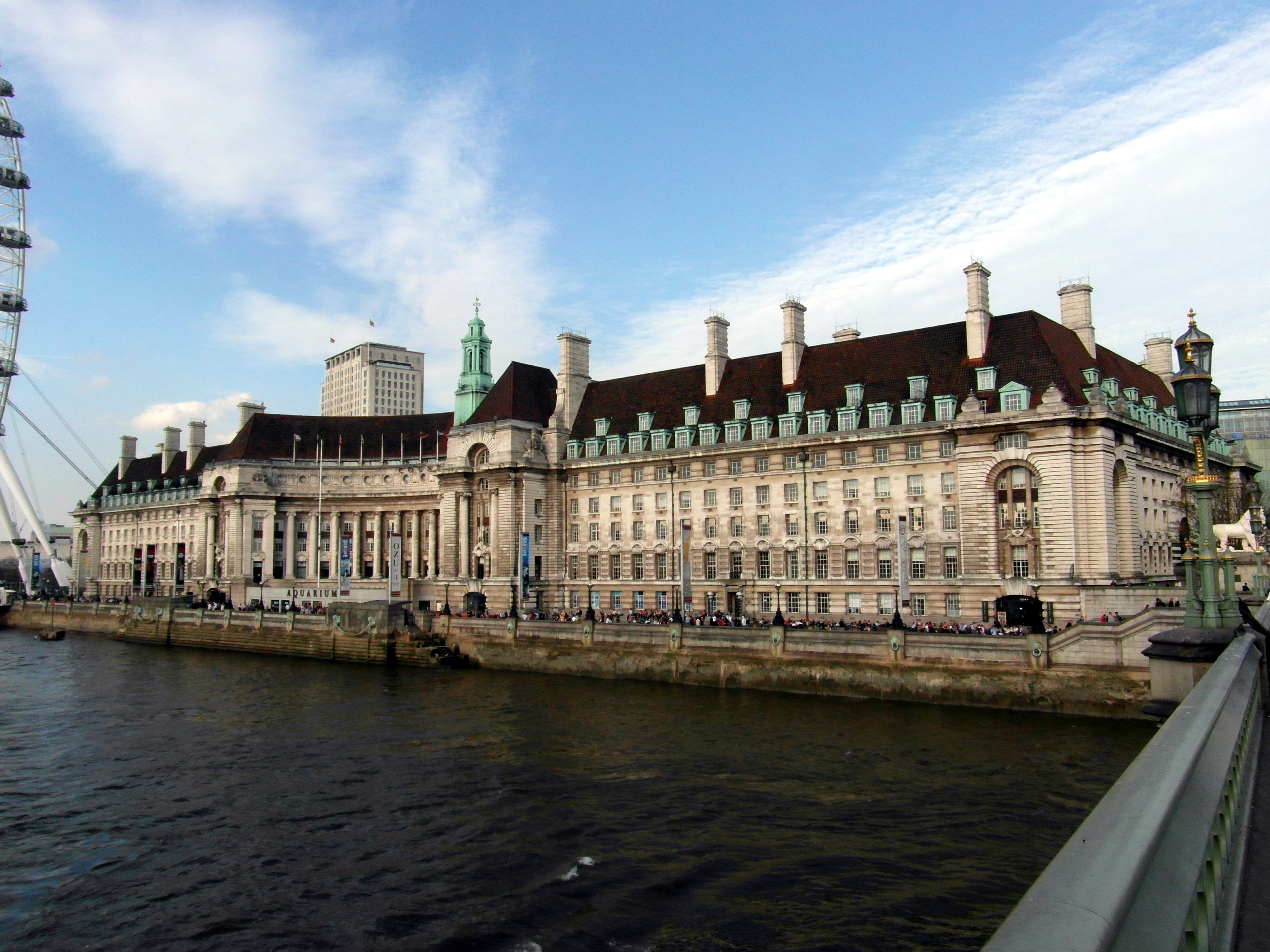 South Bank, London. Designed by Ralph Knott. The South part was was built 1912-22 with the North completed in 1931. It was the HQ of the LCC and then the GLC until its abolition in 1986. It now houses hotels and exhibition space.